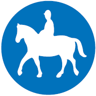 Luxembourg road sign diagram